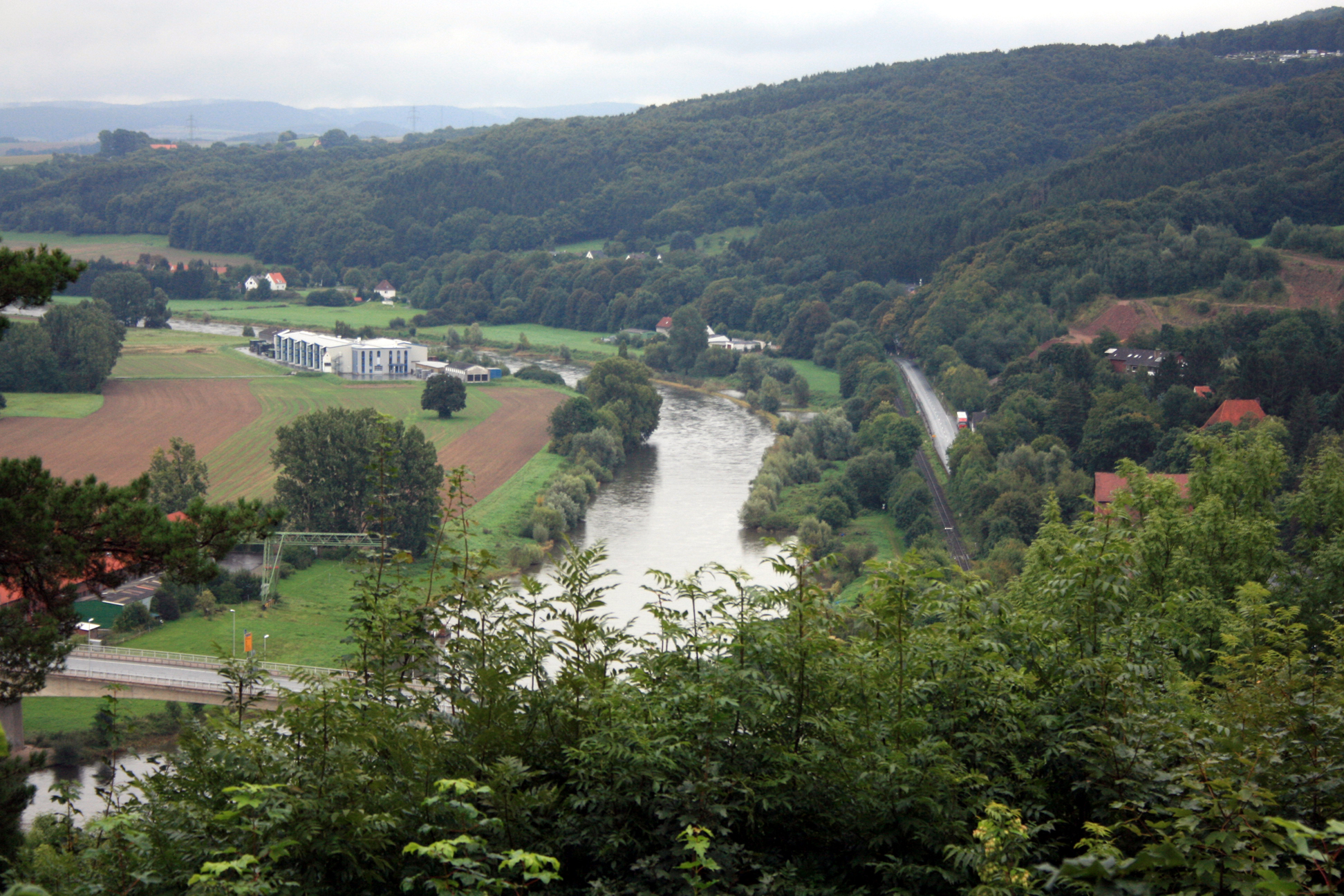 Weser River near town of Vlotho, District of Herford, North Rhine-Westphalia, Germany.